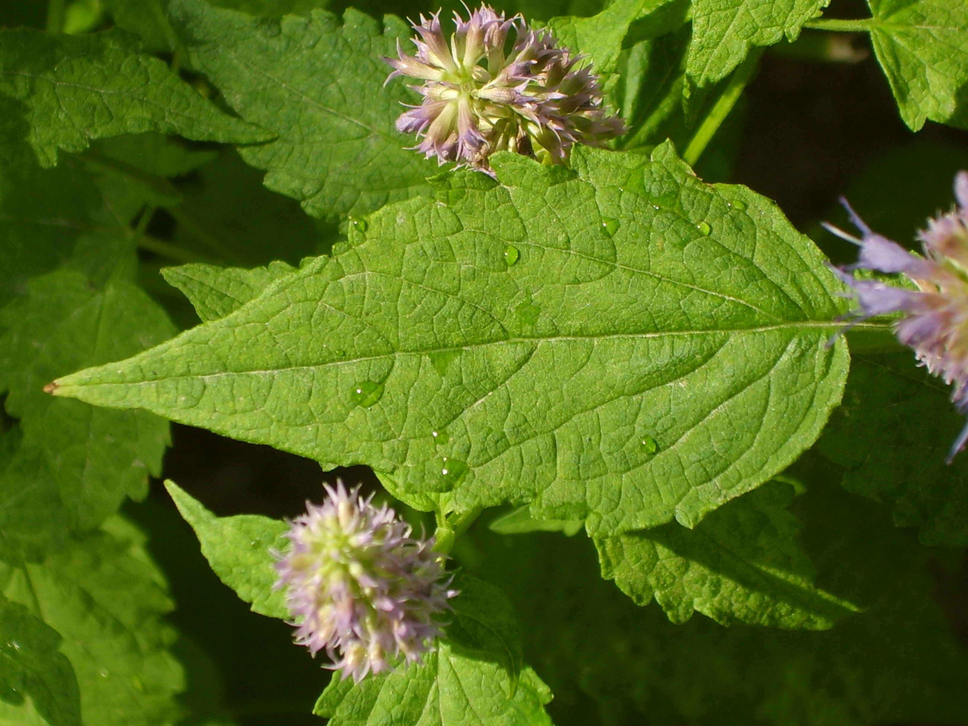 Agastache rugosa in Bupyung, Korea